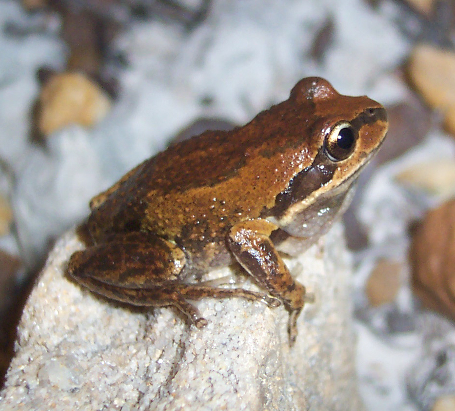 A Whistling Tree Frog, (Litoria verreauxii verreauxii) from southern Sydney.